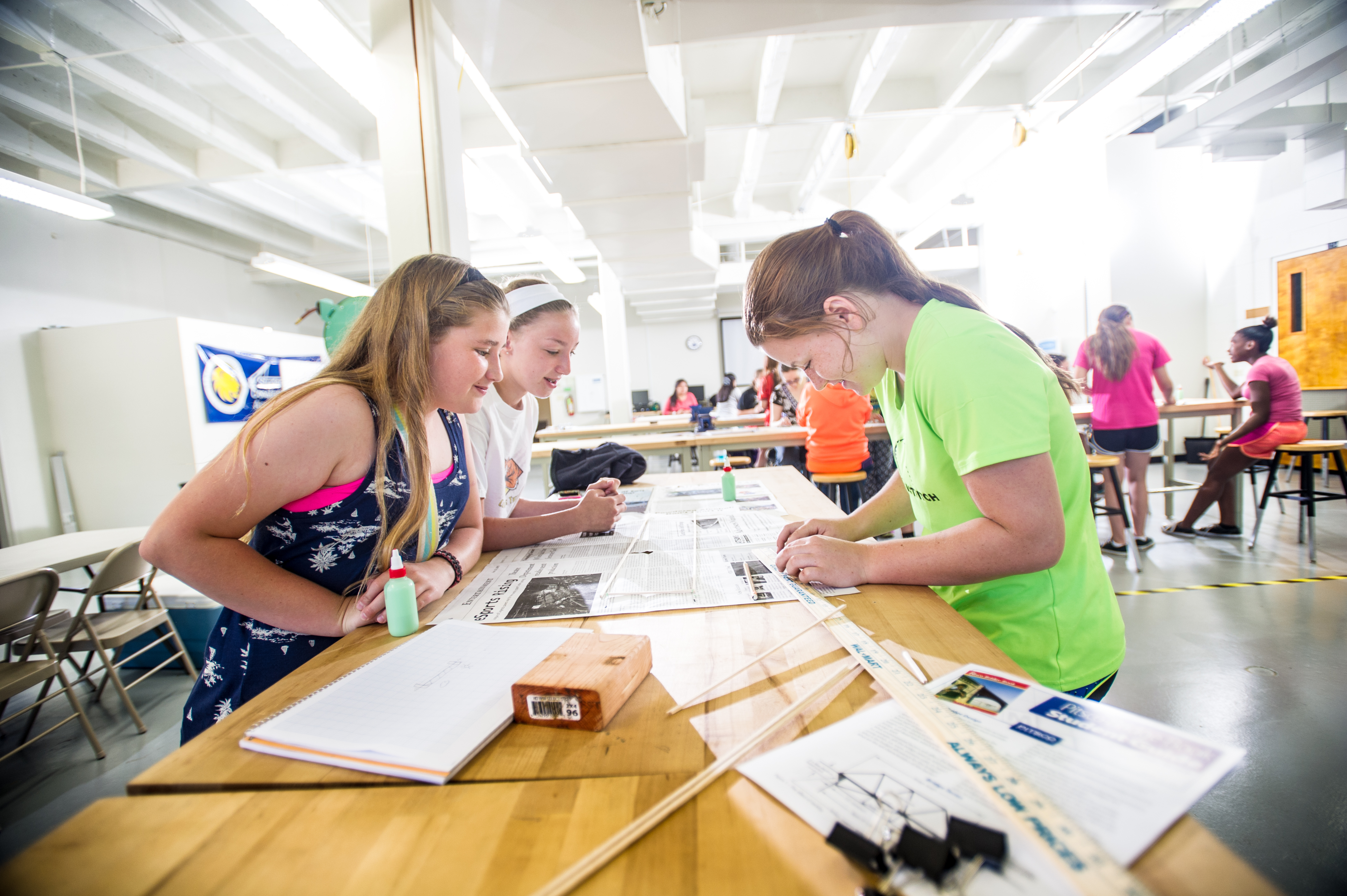 15208-event-CMS Girls Engineering Camp-6655 CMS Girls Engineering Camp